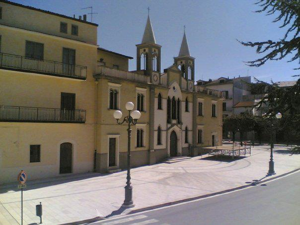 Chiesa del Convento